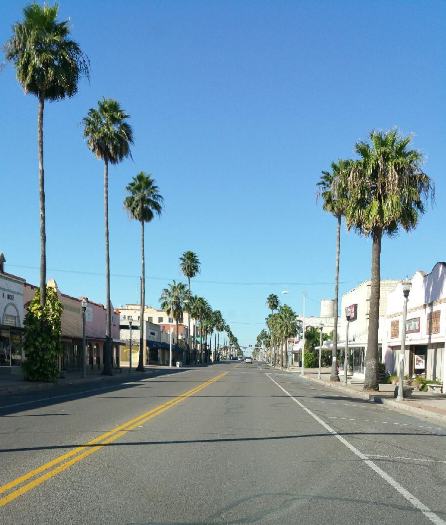 Downtown Weslaco, TX November 2015